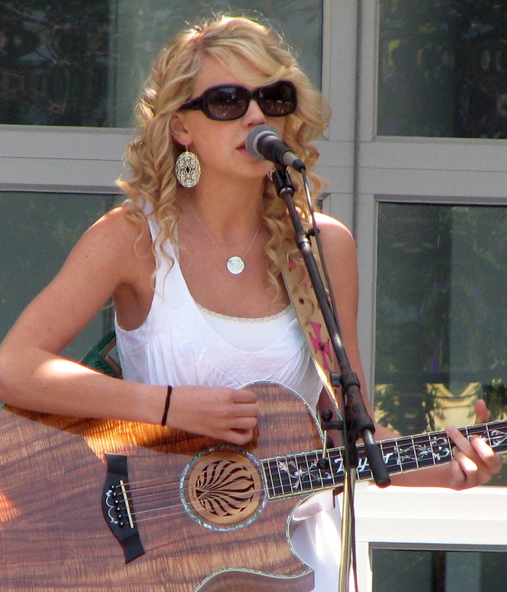 U.S. Country music singer Taylor Swift performing at Yahoo headquarters.